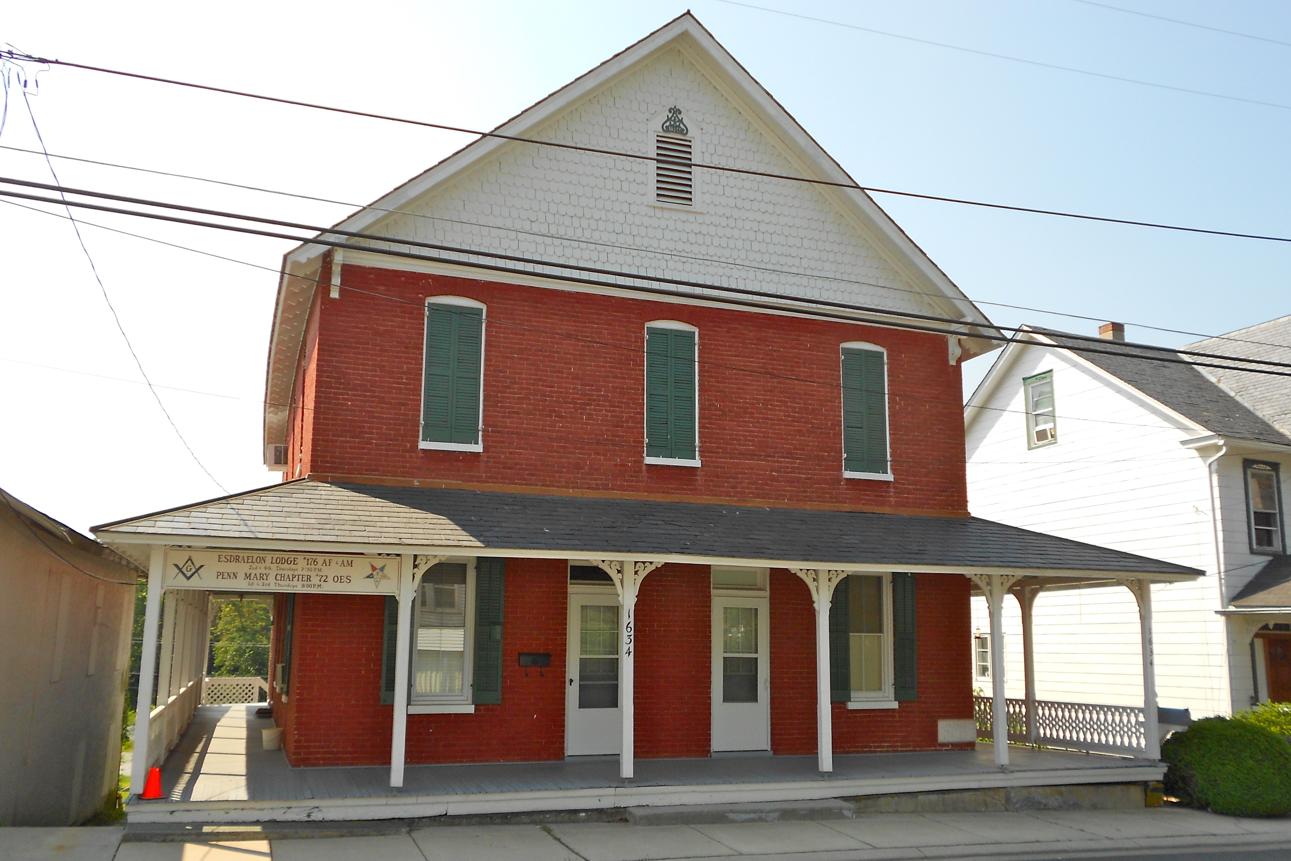 The Mason's building in Cardiff, Maryland in the Whiteford–Cardiff Historic District. This building is on Main Street in Cardiff, Harford County, Maryland.